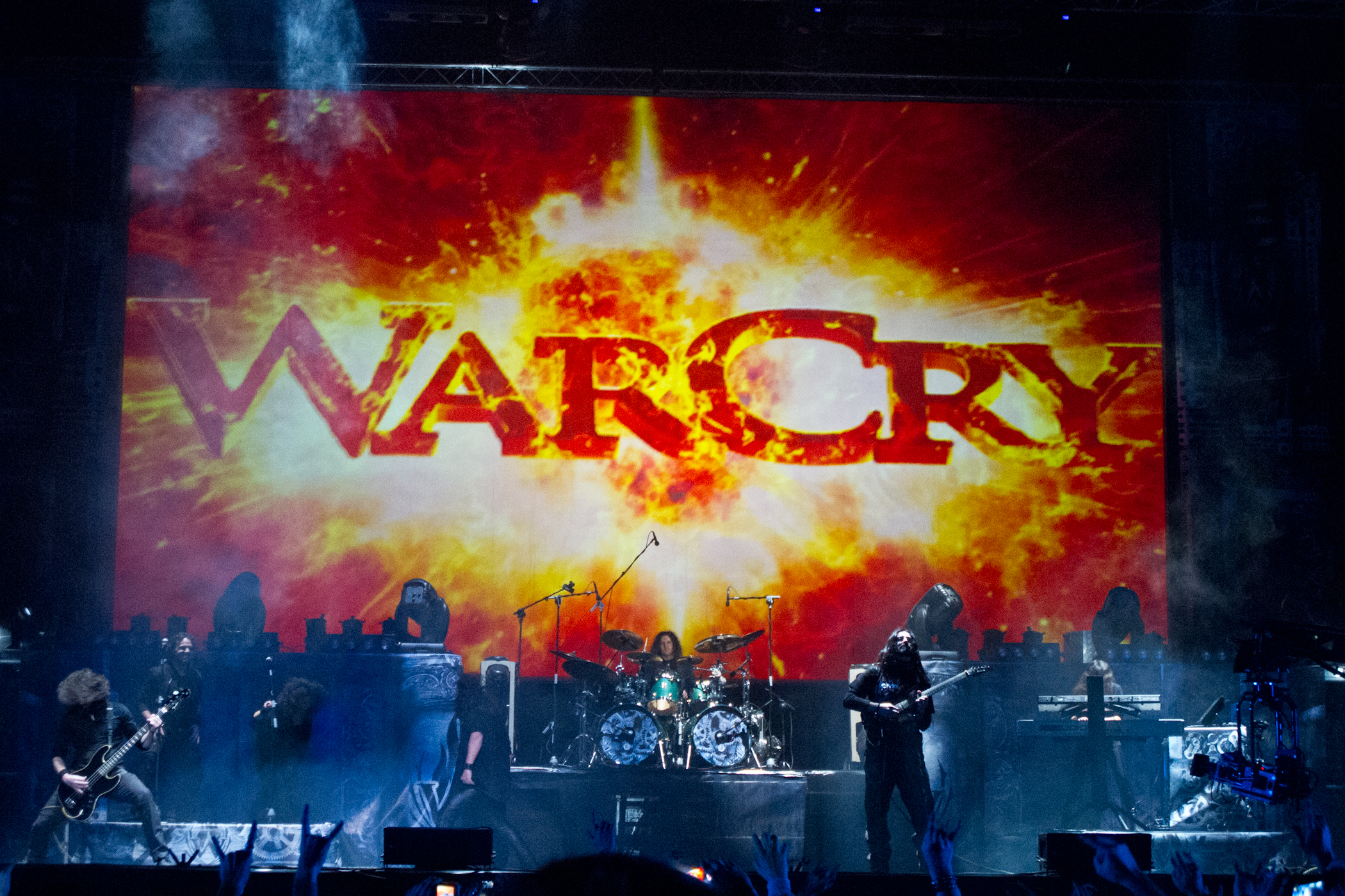 Spanish heavy metal band WarCry in concert in 2012.